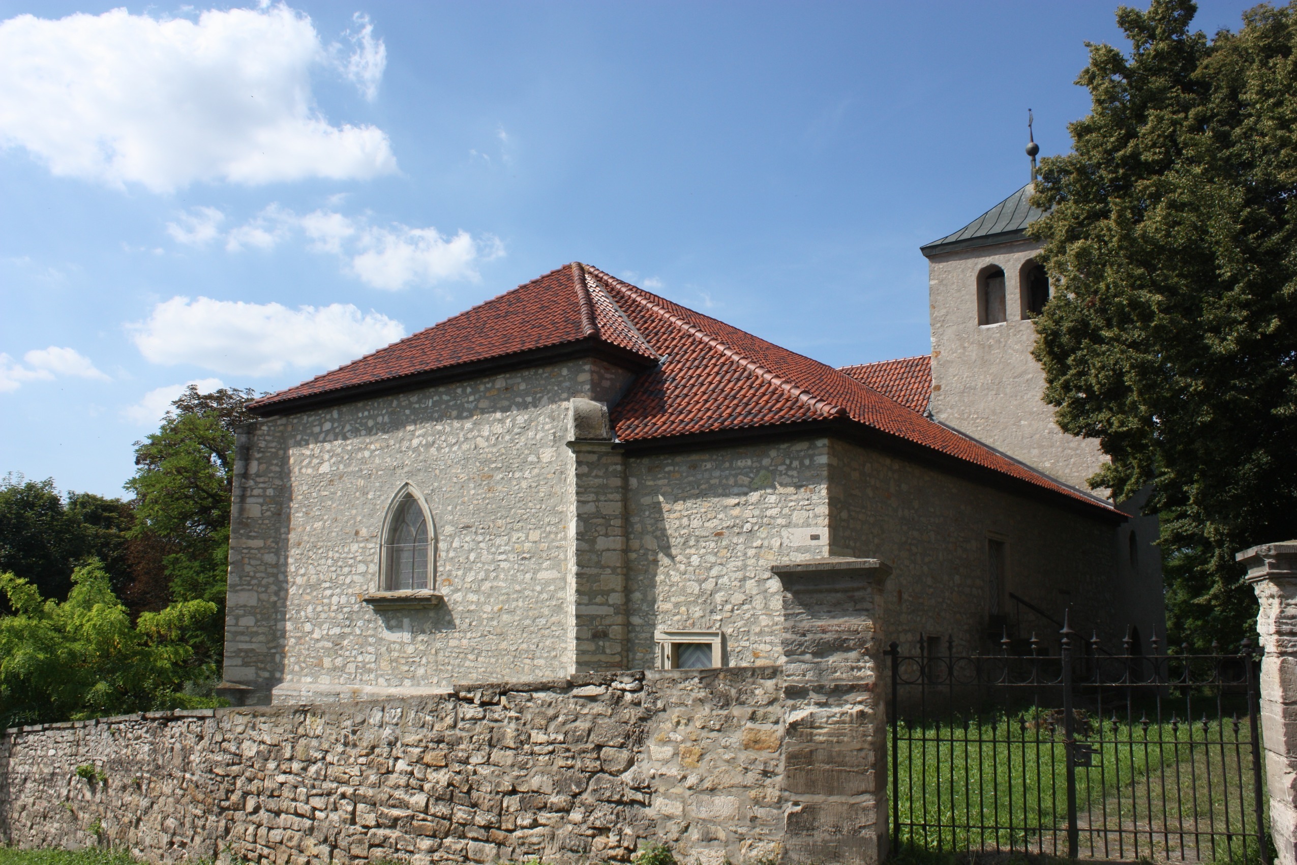 Groß Germersleben (Oschersleben), the village church